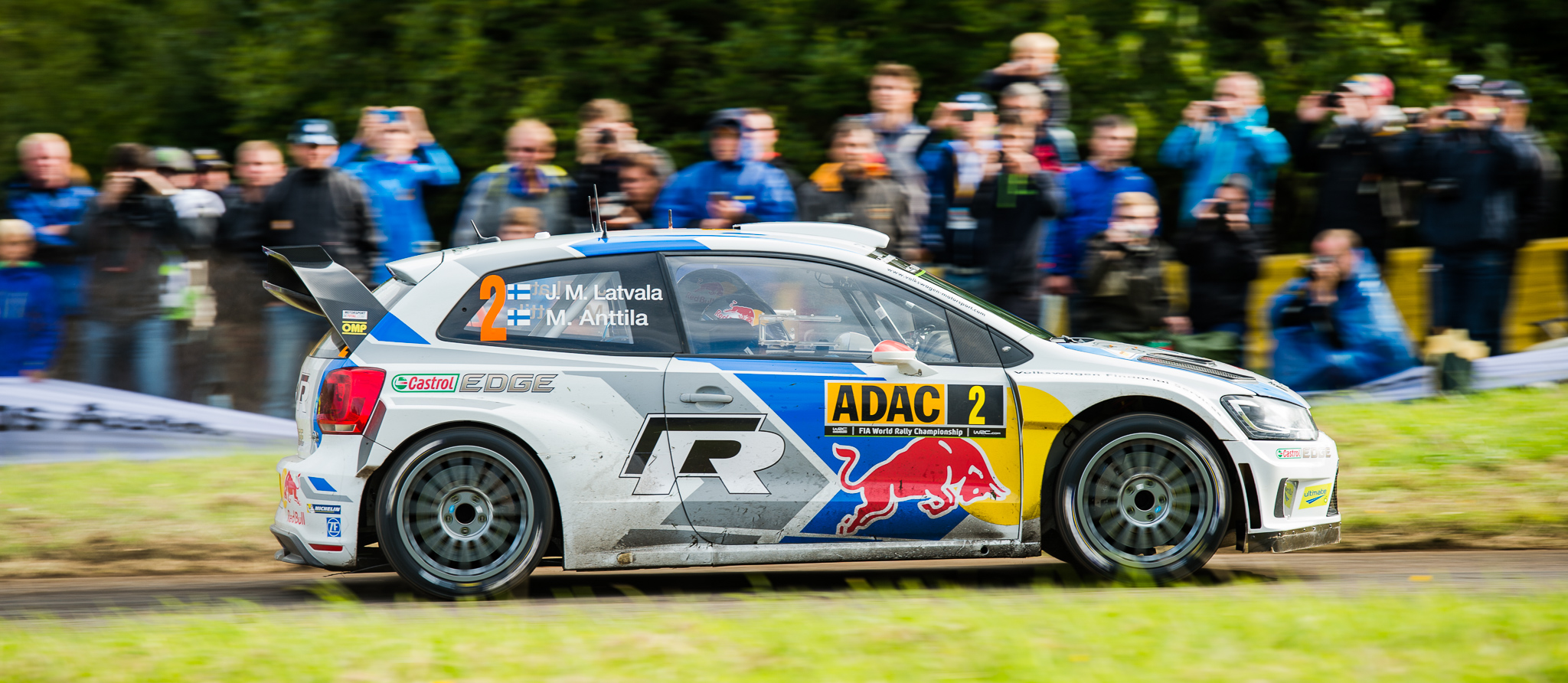 ADAC Rallye Deutschland 2014,FIA,FIA World Rally Championship,Jari-Matti Latvala,Miikka Anttila,Motorsport,Panzerplatte,Rally,Rallye,SS14,VW Polo R WRC,Volkswagen Motorsport,Volkswagen Polo R WRC,WP14,WRC